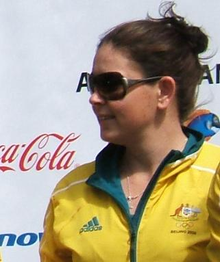 Alicia McCormack at the 2008 Olympic welcome home parade in Adelaide